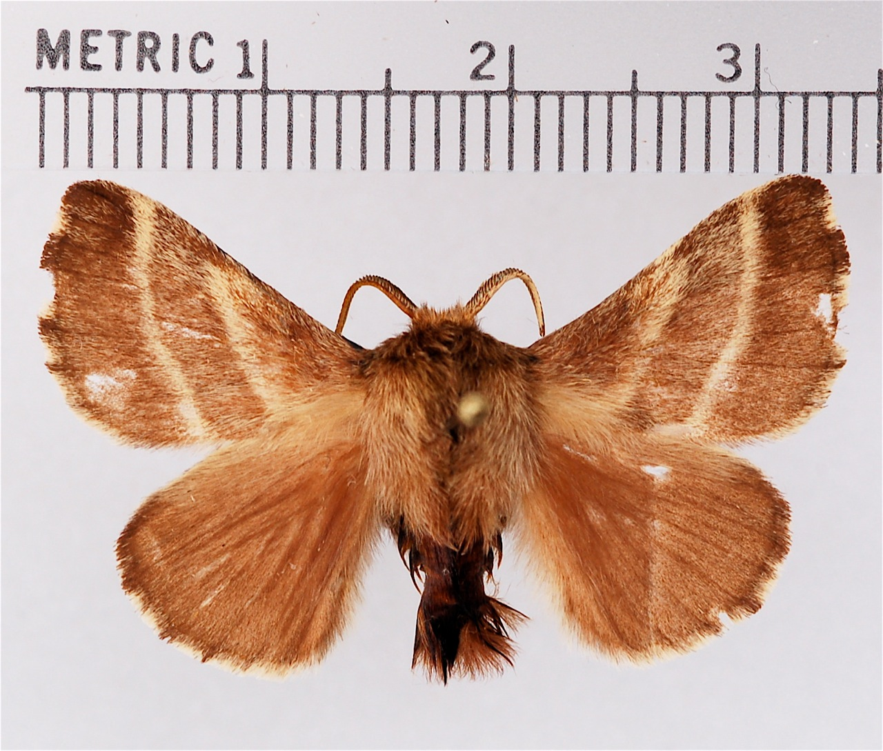 Eastern Tent Caterpillar Moth (Malacosoma americanum) Male